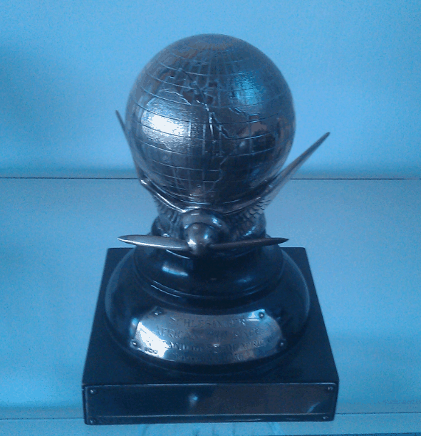 recent photograph of the Schlesinger Trophy, taken by Jim Scott, (great nephew of C.W.A. Scott winner of the race) Taken in 2012 as part of the C.W.A. Scott family archive, Jim Scott is creating the Digital Archive to supplement the material archive.